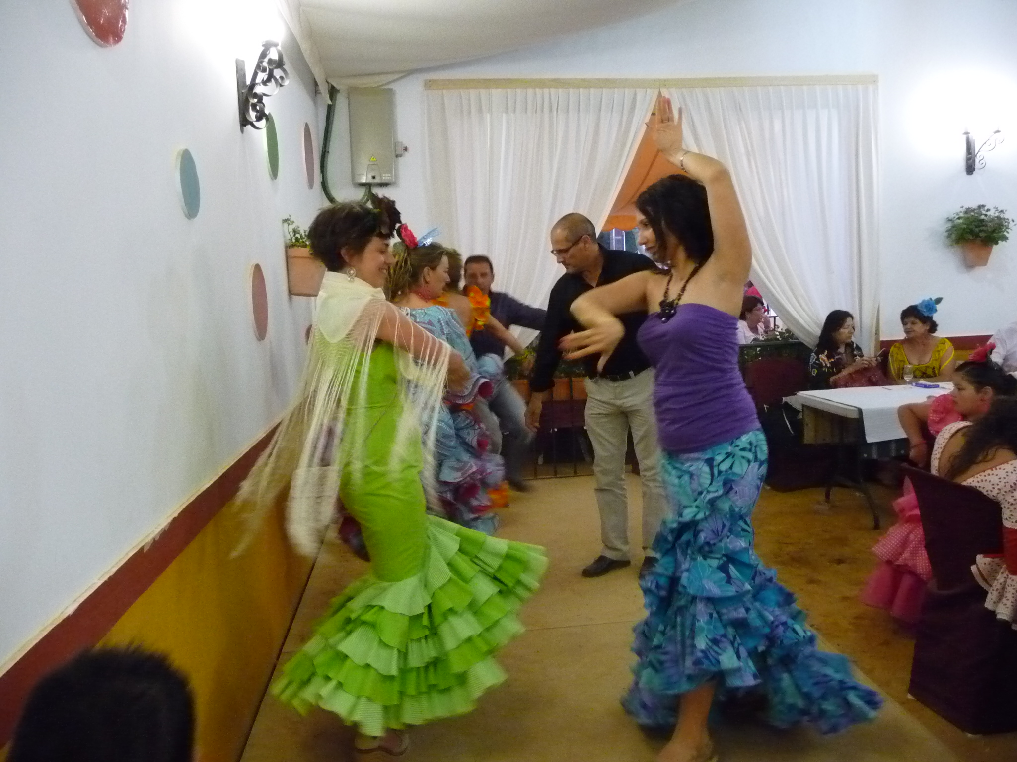 Feria of Jerez 2010